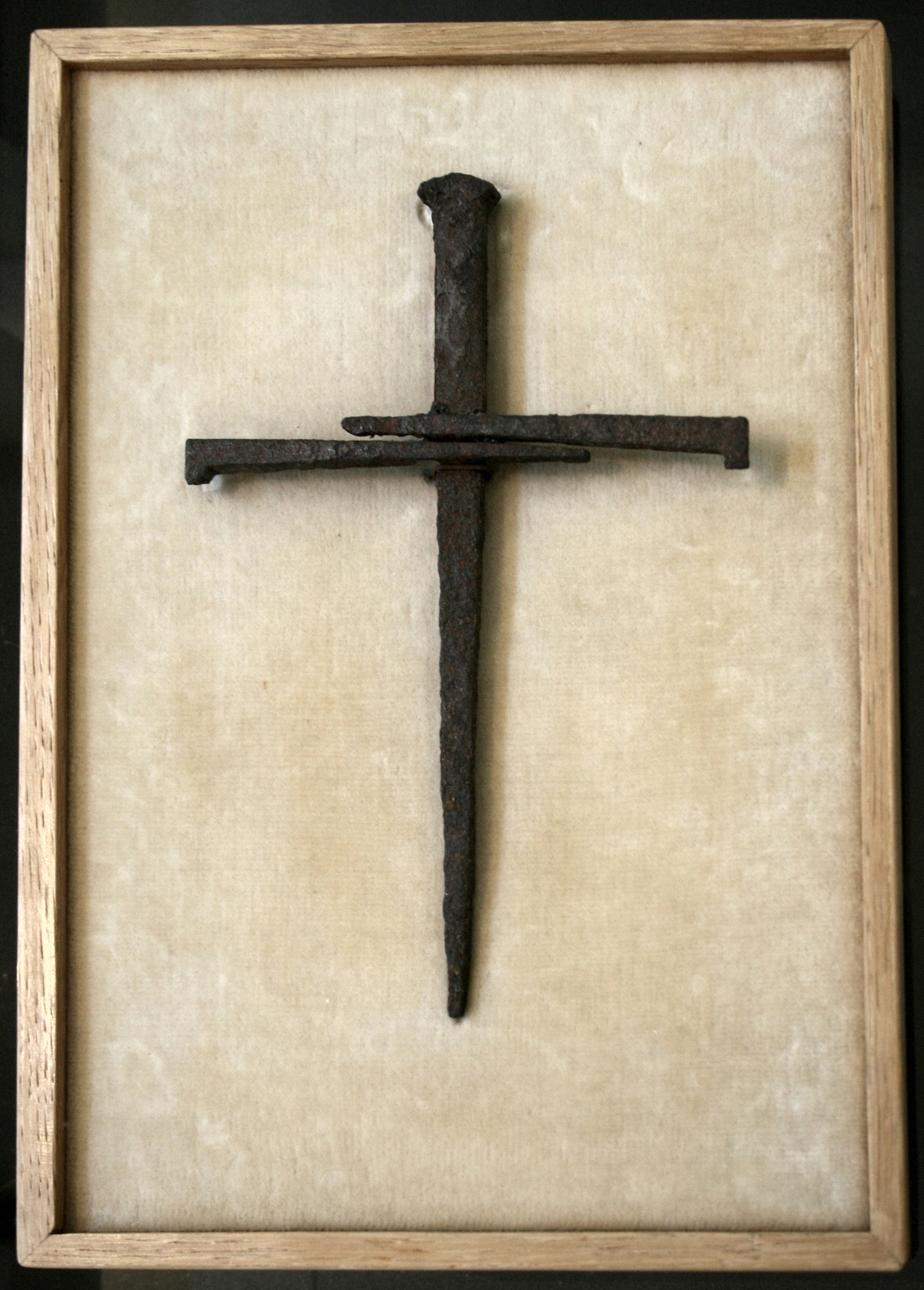 Nagelkreuz von Coventry: Cross of Nails of the Cathedral of Coventry - Gift of the Dean of the Cathedral to Konrad Adenauer. Exhibit of the permanent exhibition on the life of Konrad Adenauer at the headquarters of the Chancellor Adenauer House Foundation in Bad Honnef-Rhöndorf.